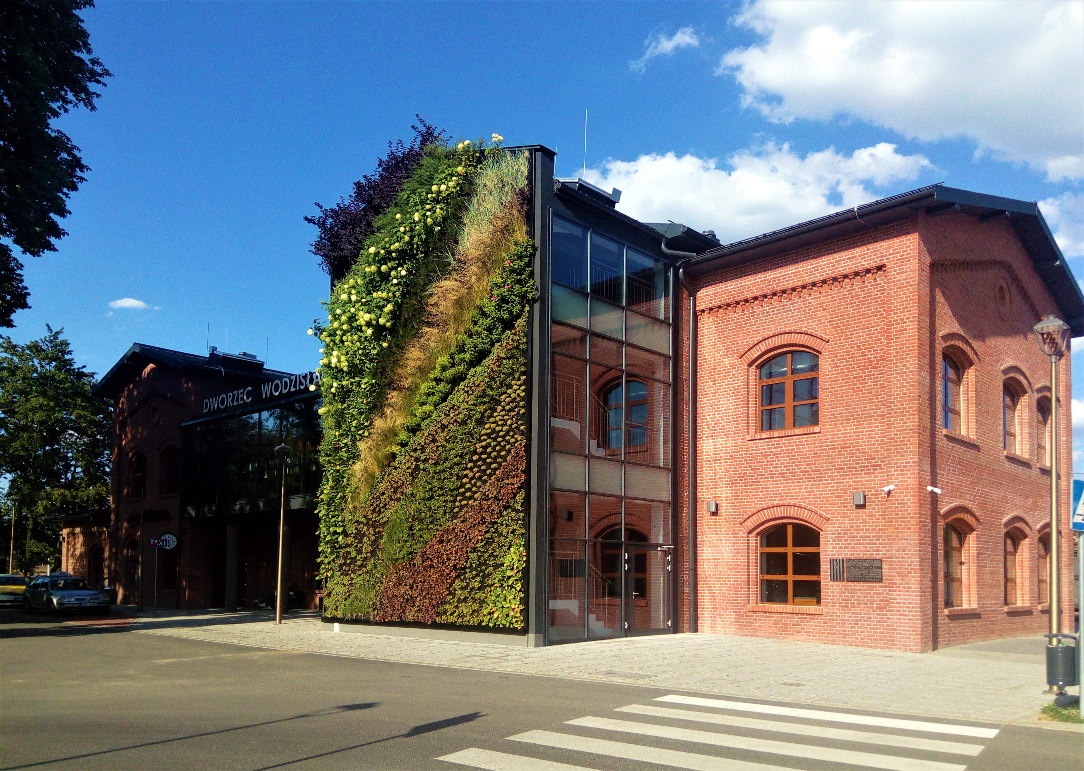 Railway station Wodzisław Śląski after the reconstruction completed in June 2019.